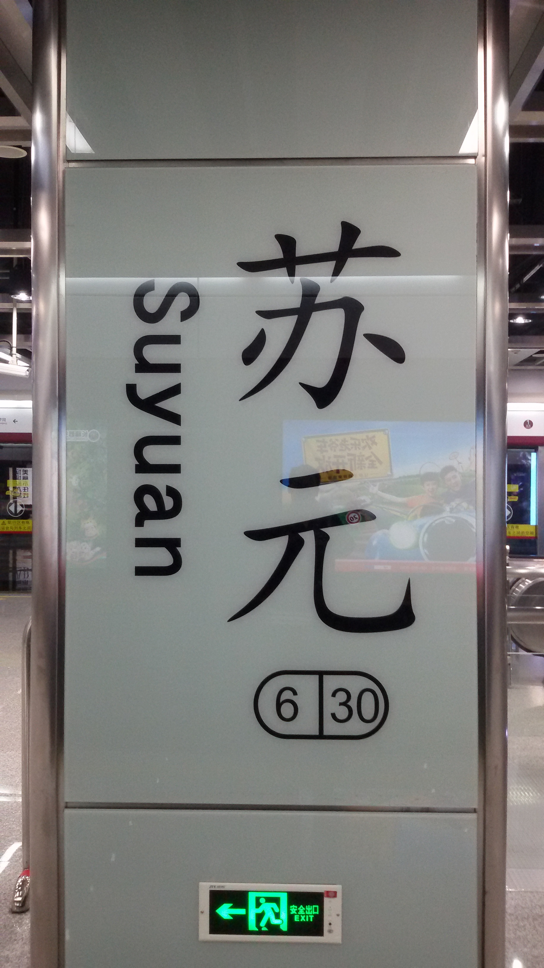 WORD on PILLAR for Suyuan Station in Guangzhou Metro